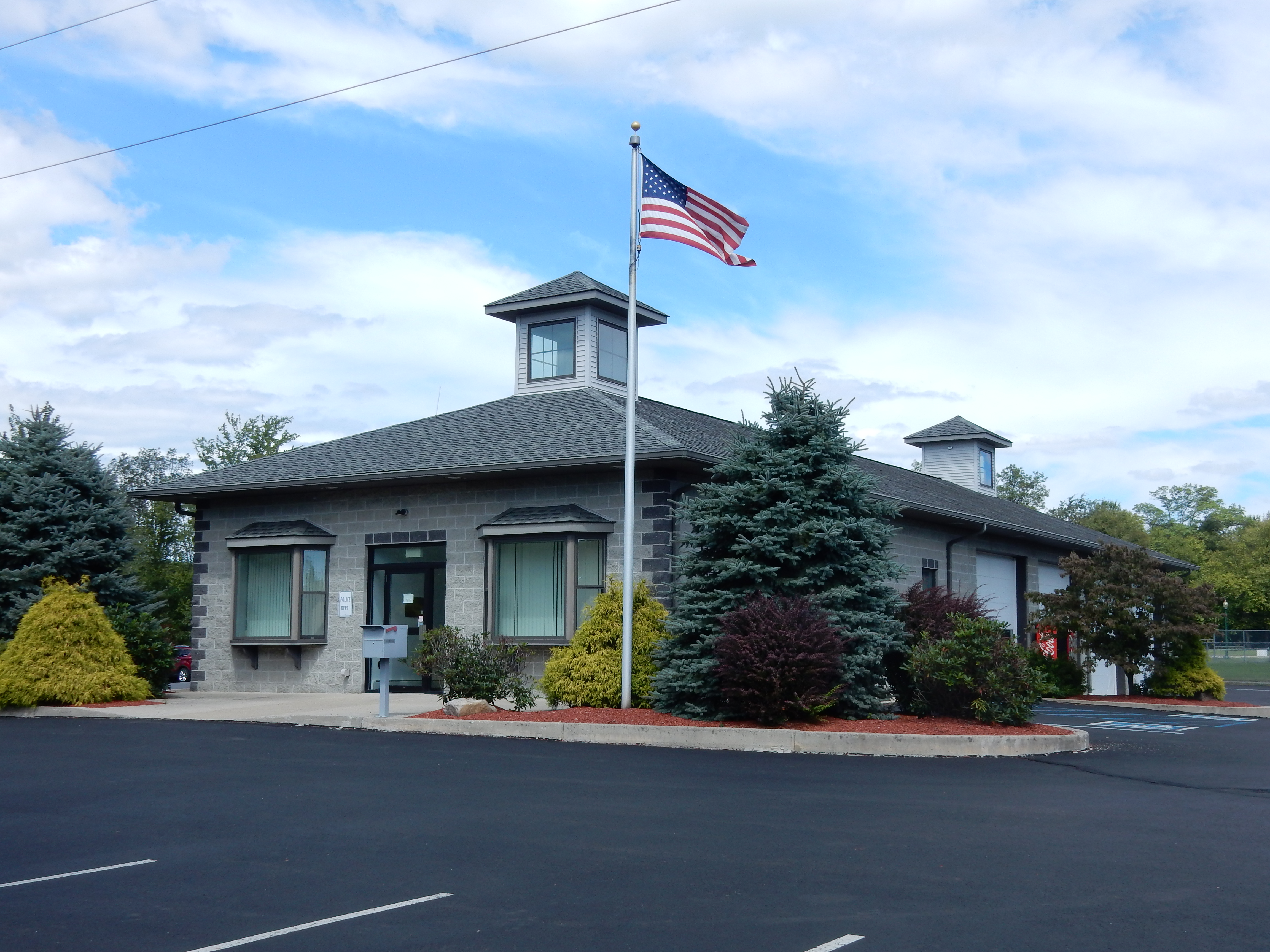 Foster Twp. Municipal Bldg., 1540 Sunbury Rd., Buck Run, Foster Township, Schuylkill County, Pennsylvania.